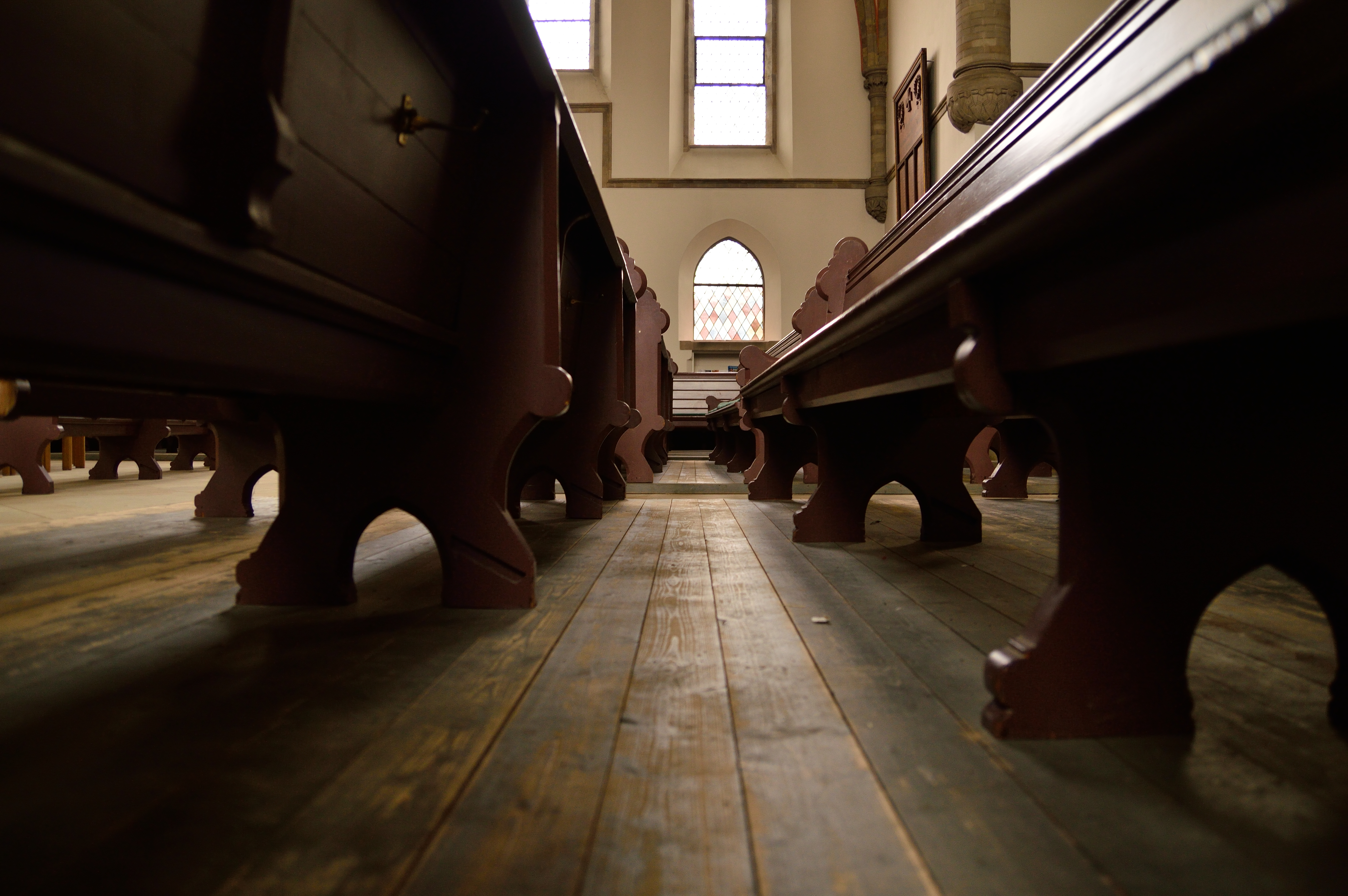 Garnisonkirche Oldenburg inner view